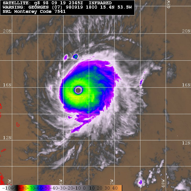 Hurricane Georges hours before attaining its peak intensity